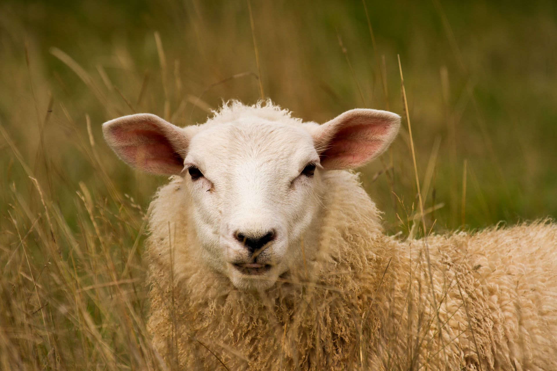 A sheep in the long grass